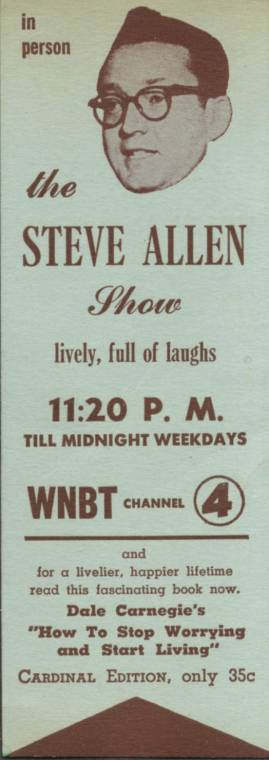 Promotional bookmark for the Steve Allen and Morey Amsterdam television programs which were seen on WNBT-TV, New York. The bookmark carried a promotion for Allen on one side and Amsterdam on the other. The promotion was shared with Pocket Books and Cardinal Books, who were publishers of paperback books.